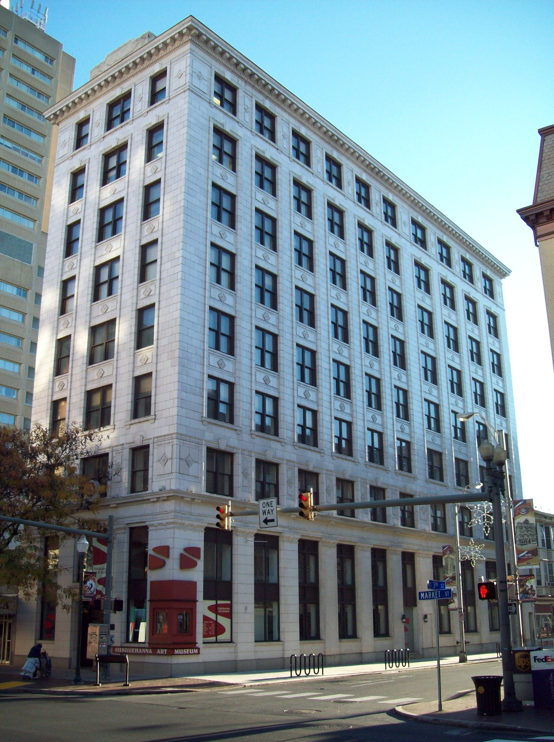 Kunkel Building, Harrisburg, Pennsylvania, November 2010